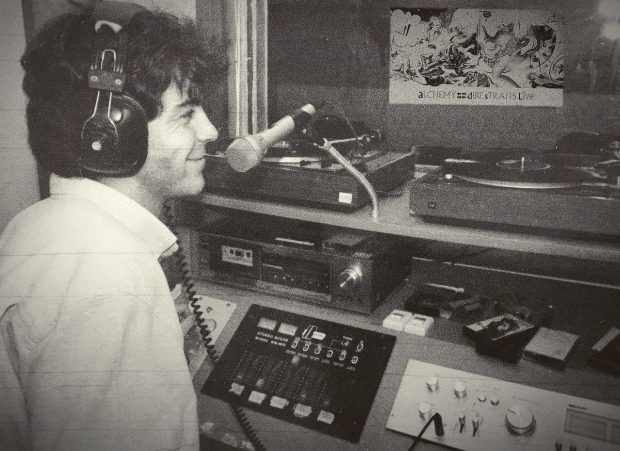 View of studio at Radio Las Aguilas Madrid 1985